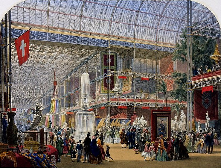 Absolon, John, General View, Crystal Palace, lithograph, coloured by hand, Lloyd Brothers & Co (publisher), 1851